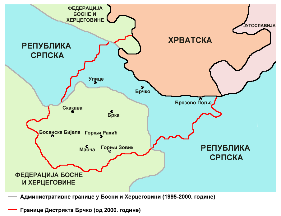 Serbian corridor (1995-2000) and Brčko District (since 2000) within Bosnia and Herzegovina.